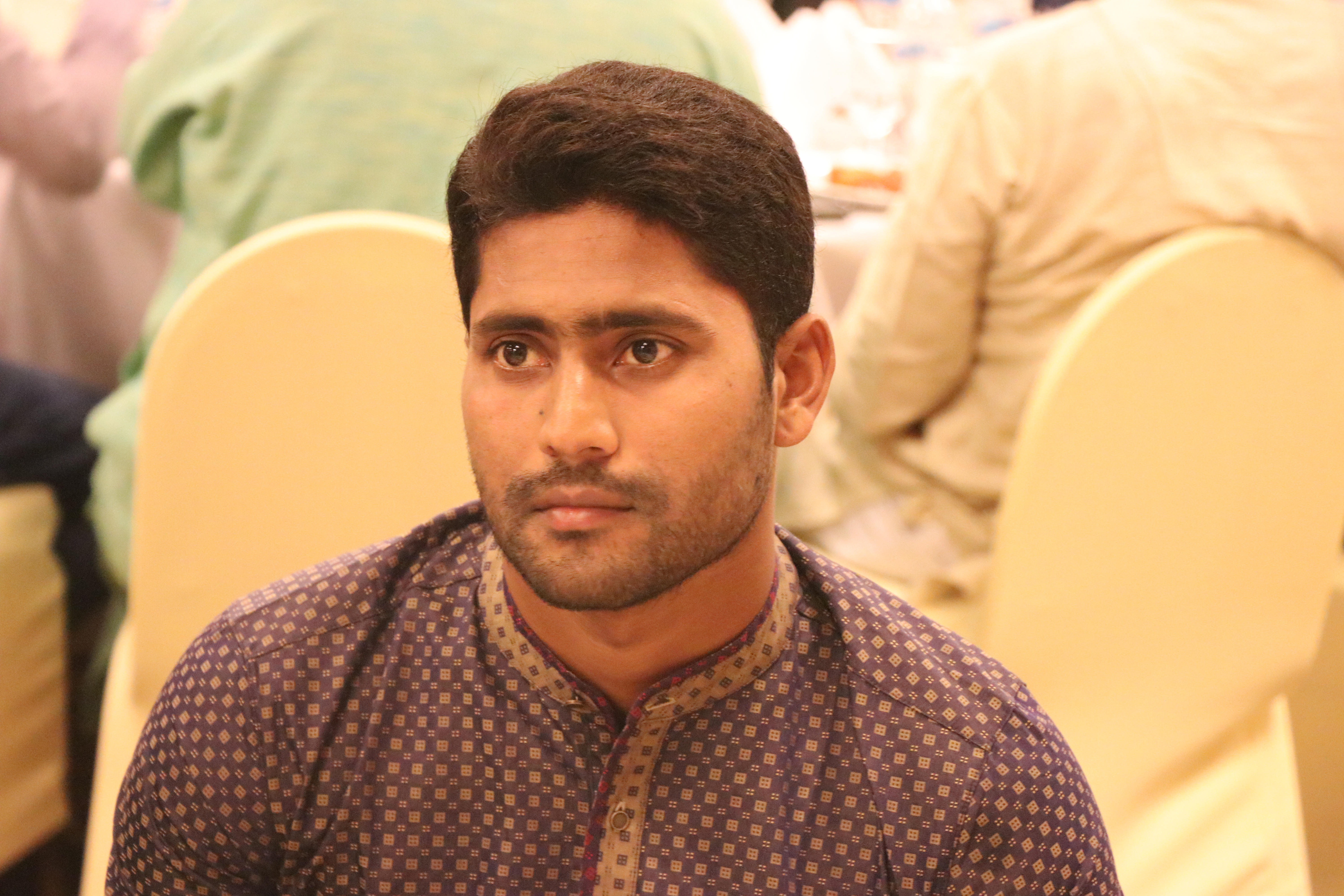 Imrul Kayes, Bangladesh National Cricket player